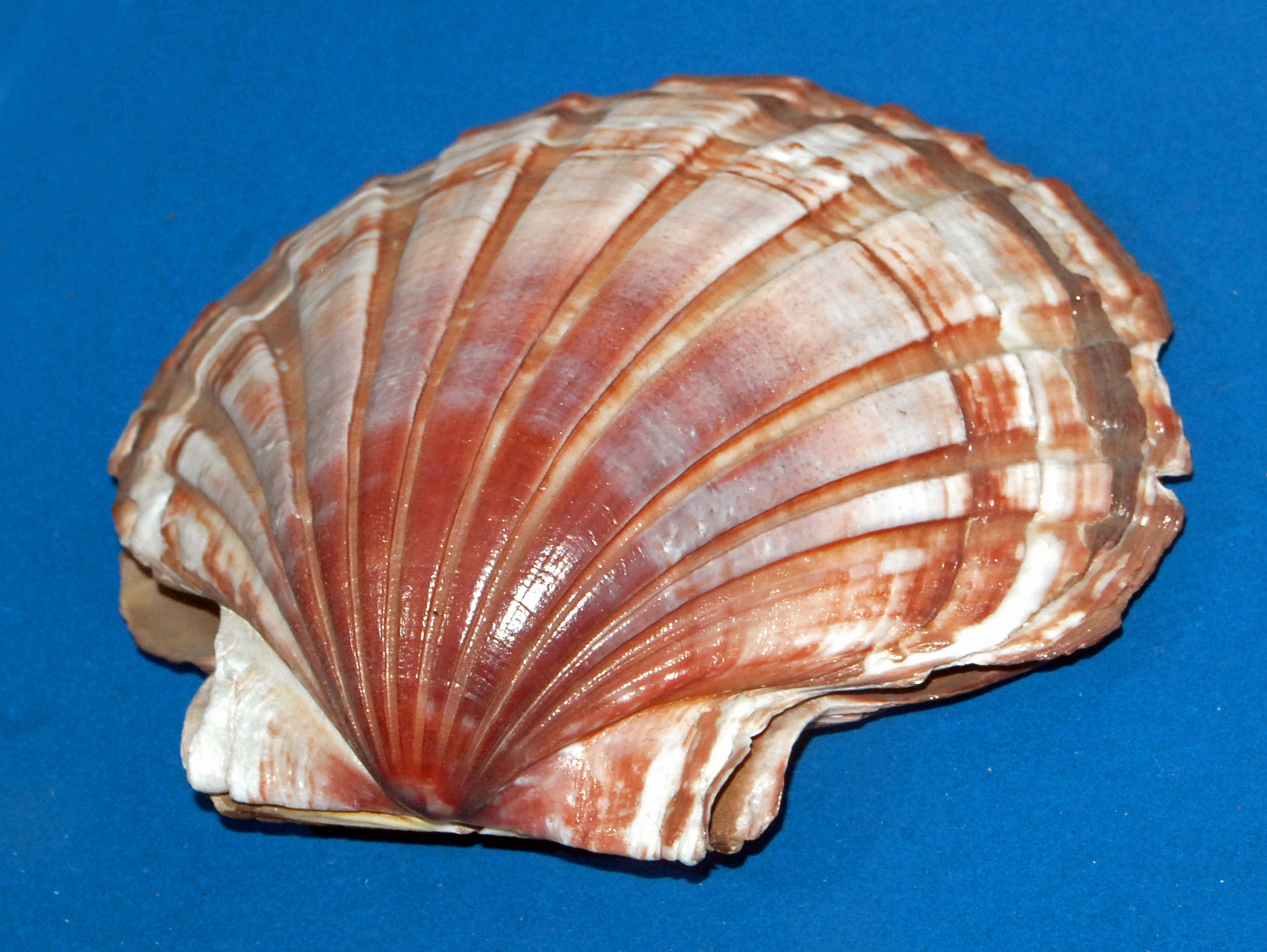 Shell of Pecten albicans from Japan at the Museo Civico di Storia Naturale di Milano